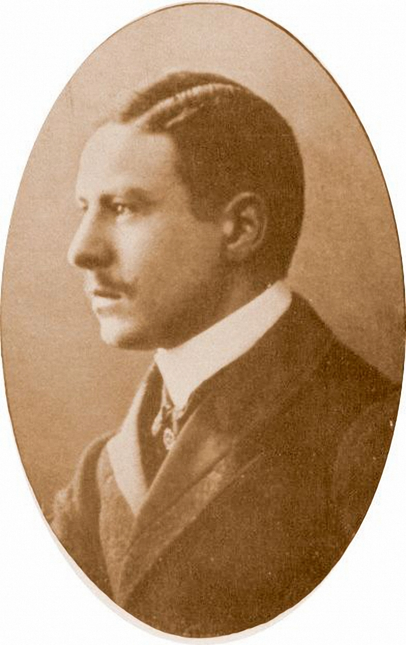 Winnner Gordon Bennnet Cup in ballloning 1907